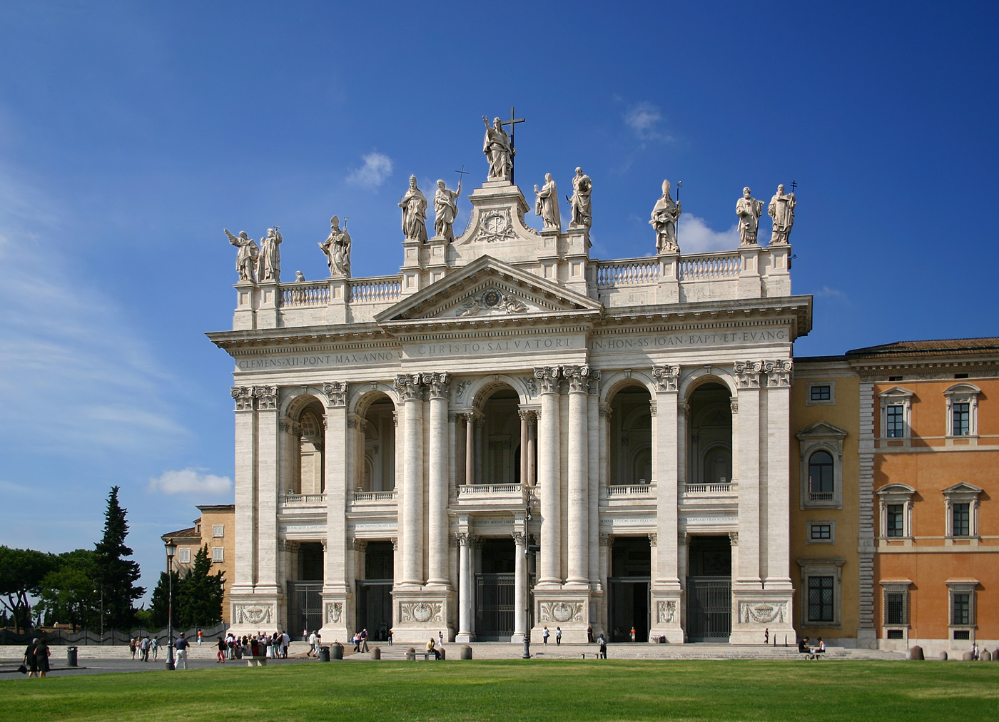 Basilica of St. John Lateran, cathedral of the Bishop of Rome, Italy.